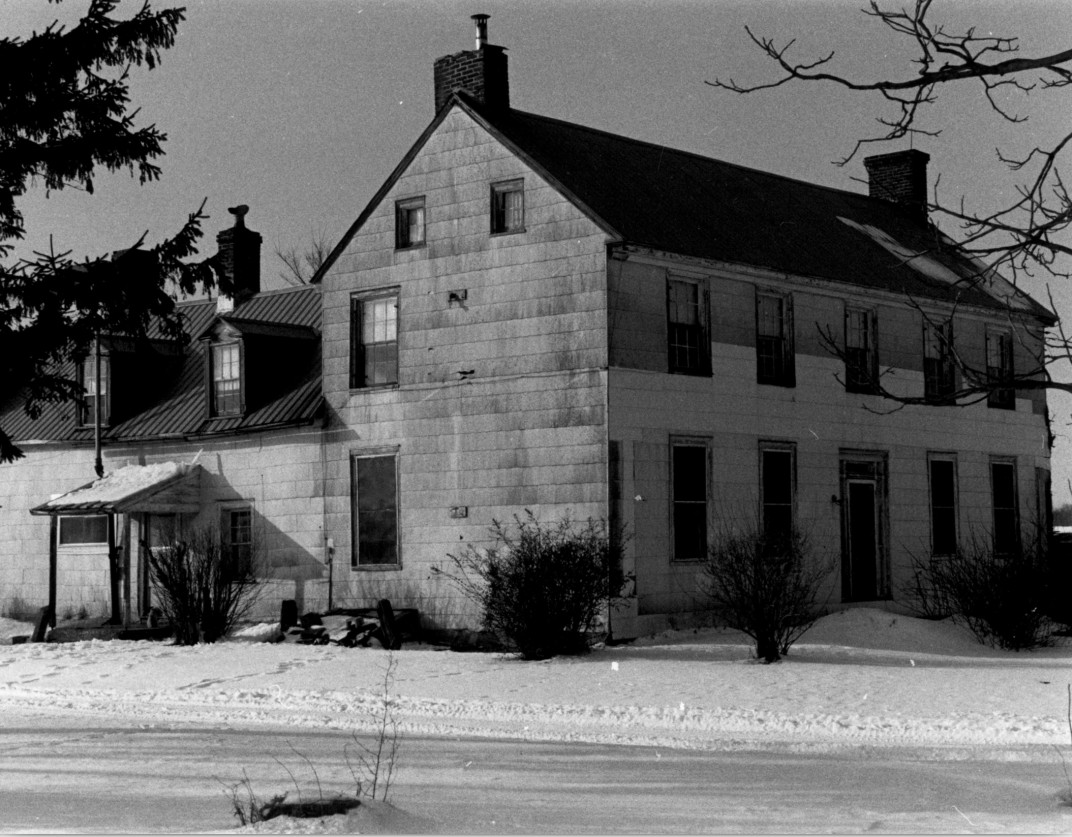 Fields Heirs, Middletown, Delaware. This building has been demolished.